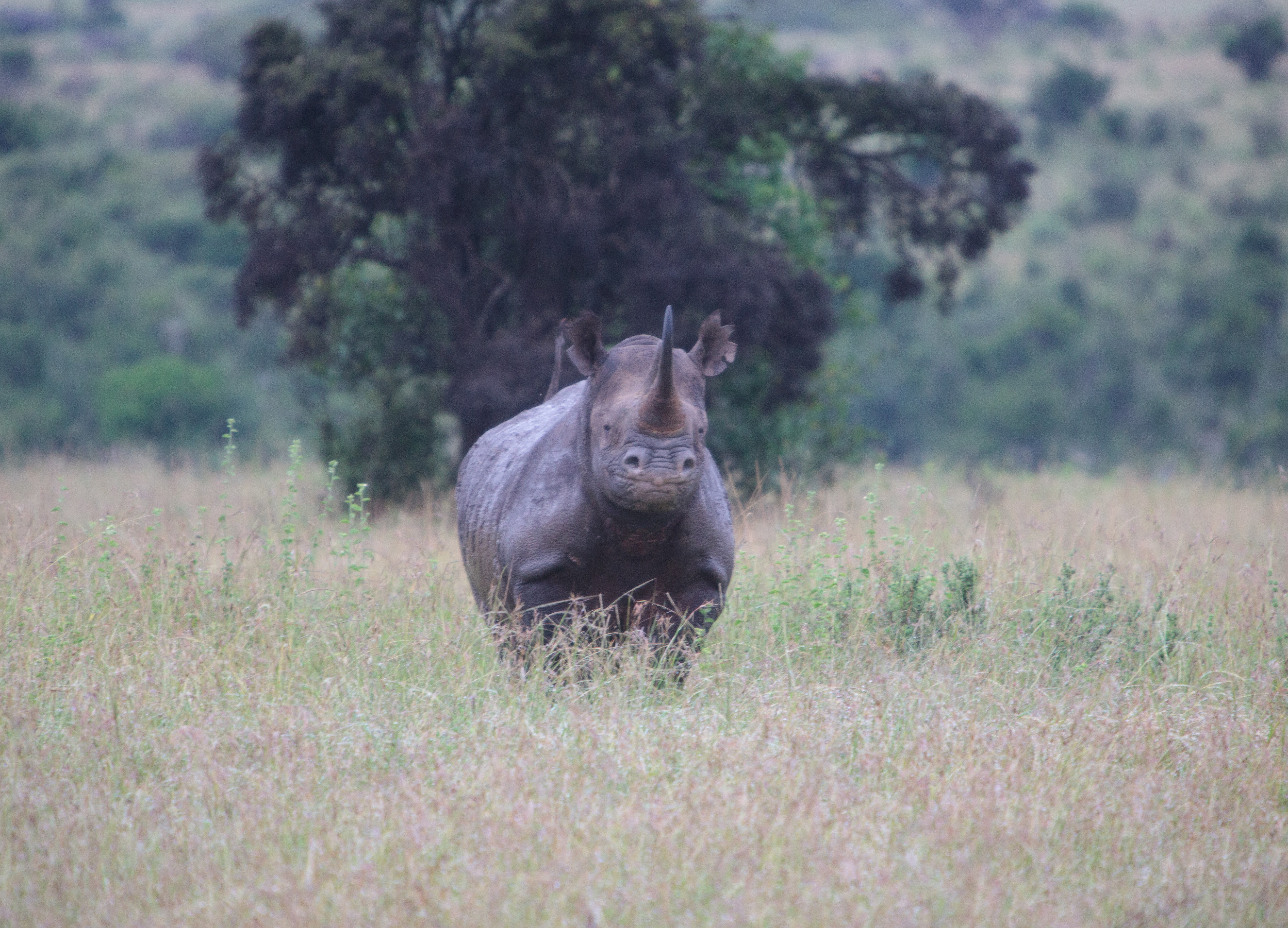 Diceros bicornis (michaeli ? - trying to figure which subspecies of rhino this is). Mbagathi, Nairobi National Park, Kenya.